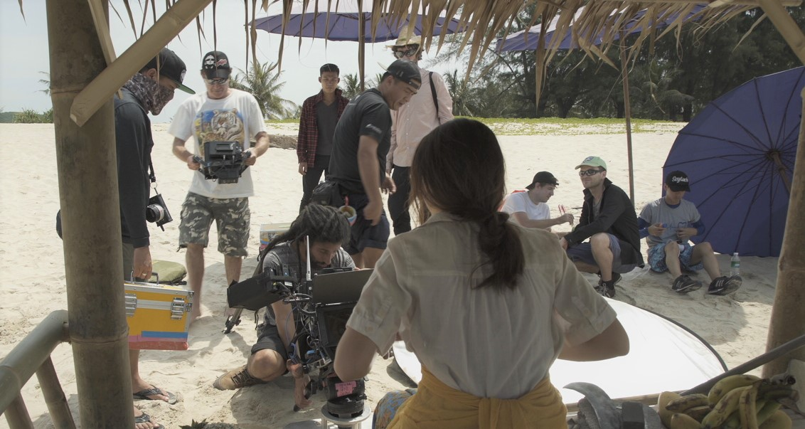 PhonY-shoot in Phuket, by on-set still photographer Russel Geoffrey Banks, March 16, 2018